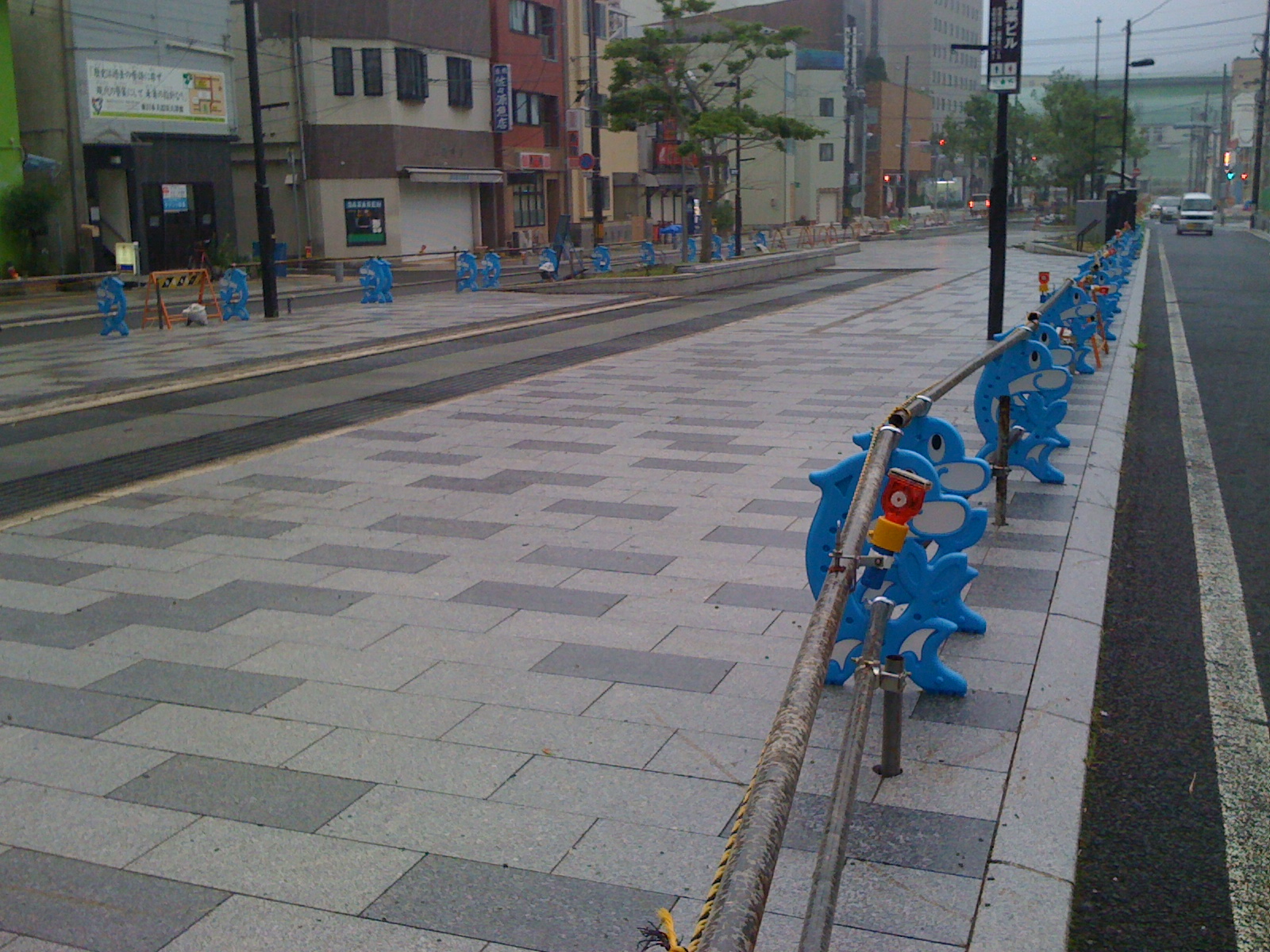 Street and pedestrian area in Kamaishi, Iwate, Japan